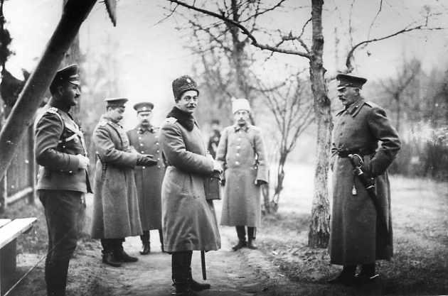 Grand Duke Andrei duirng the warz 1914 -1915 withay group of officers on the territory of the General Headquarters in Barafile